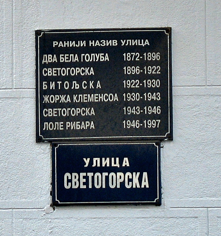 Street plates showing current and former names of the Svetogorska street in Belgrade.